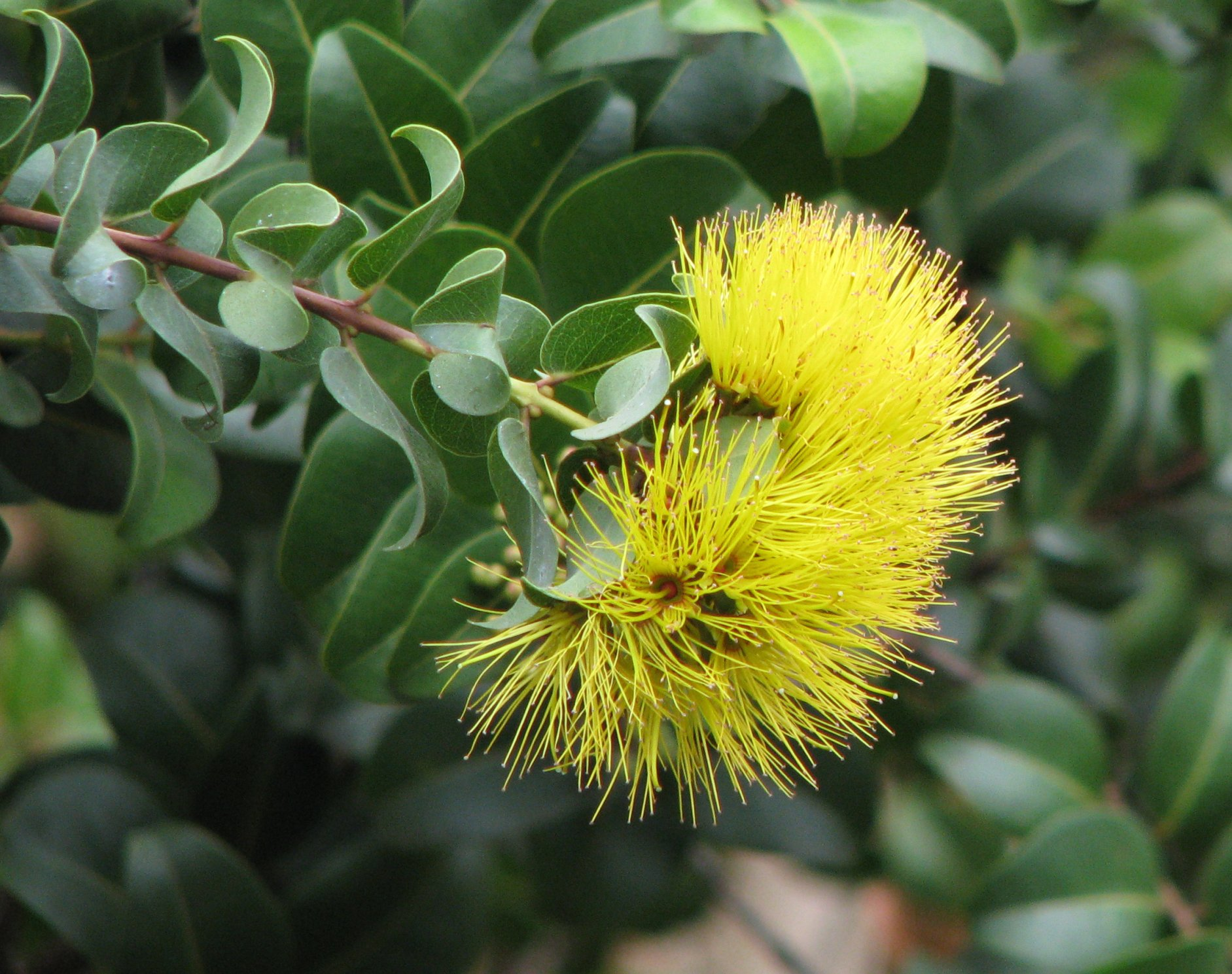 ʻŌhiʻa, ʻŌhiʻa lehua, Lehua, Lehua mamo Myrtaceae Endemic to the Hawaiian Islands Oʻahu (Cultivated) NPH00058